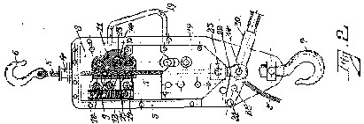 drawing of the first hoist named TIRFOR